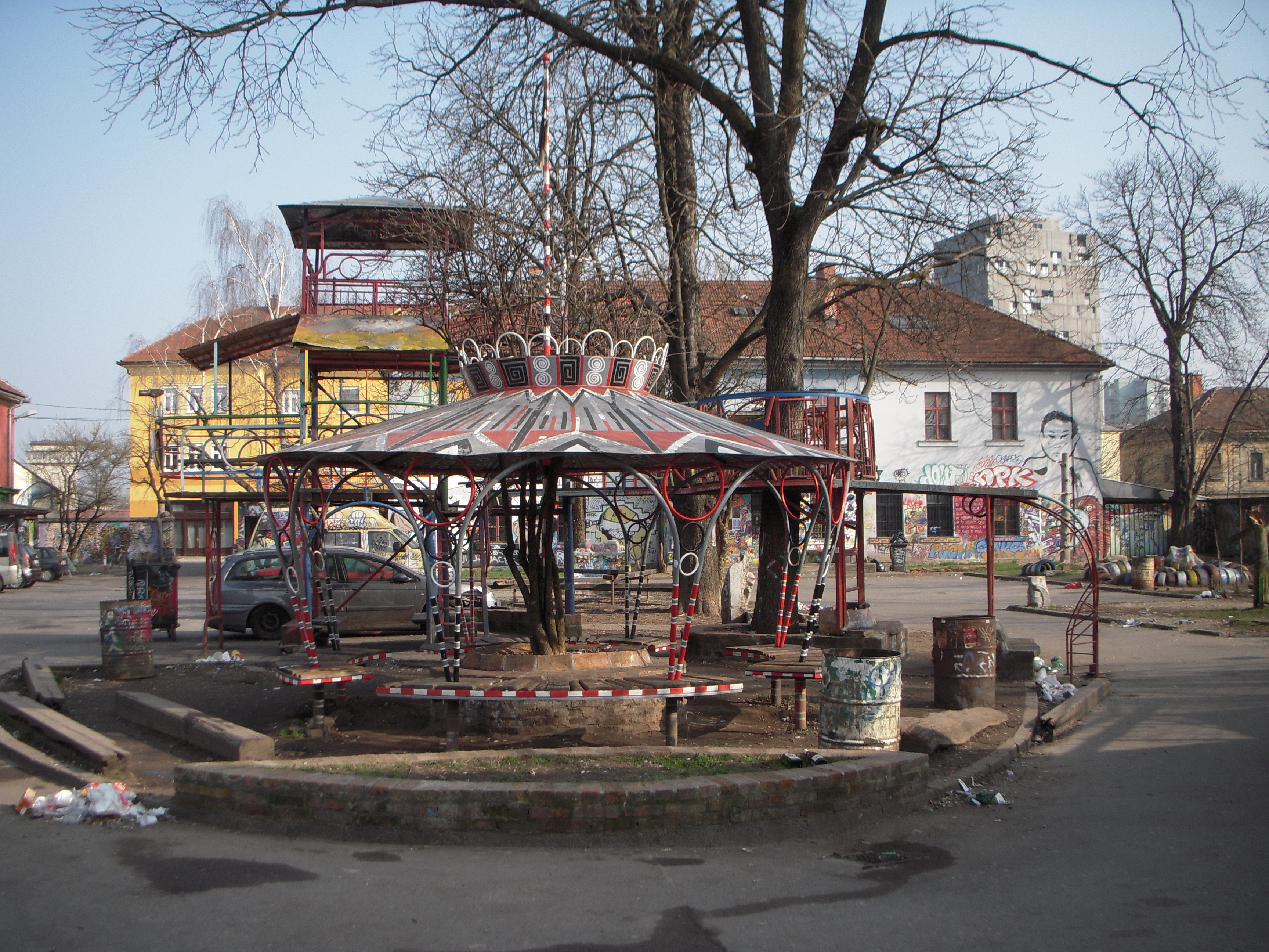 we stayed at the hostel celica, right next to here